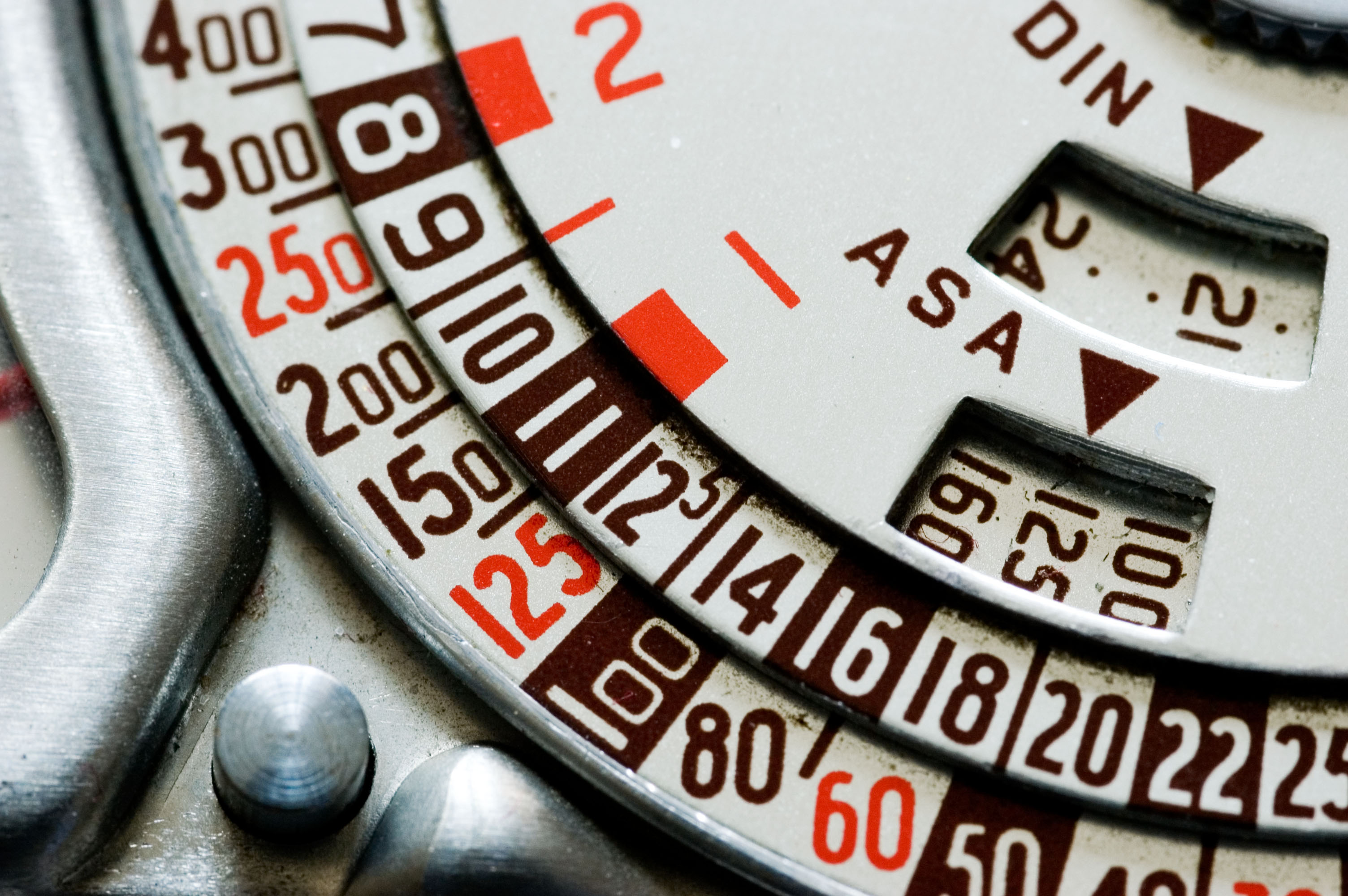 Dial detail of Weston Master V (CC-by-SA which means anyone can use any size of this image anywhere provided accompanied by the credit: Image: George Rex Photography)